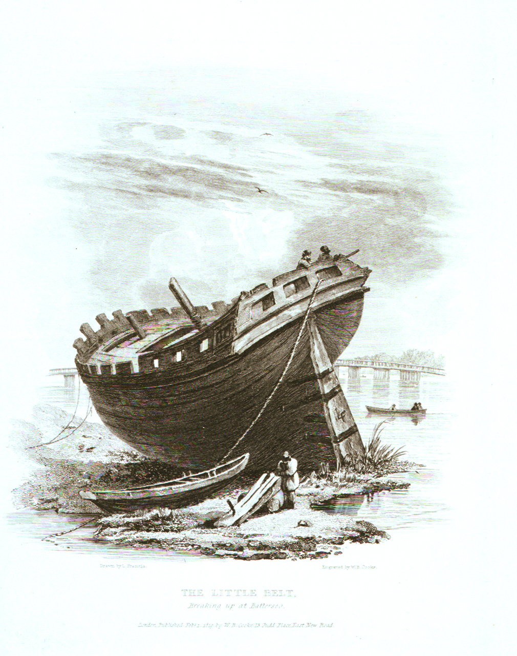 The Little Belt Breaking up at Battersea Vignette. From Cooke's 'Views on the Thames' .